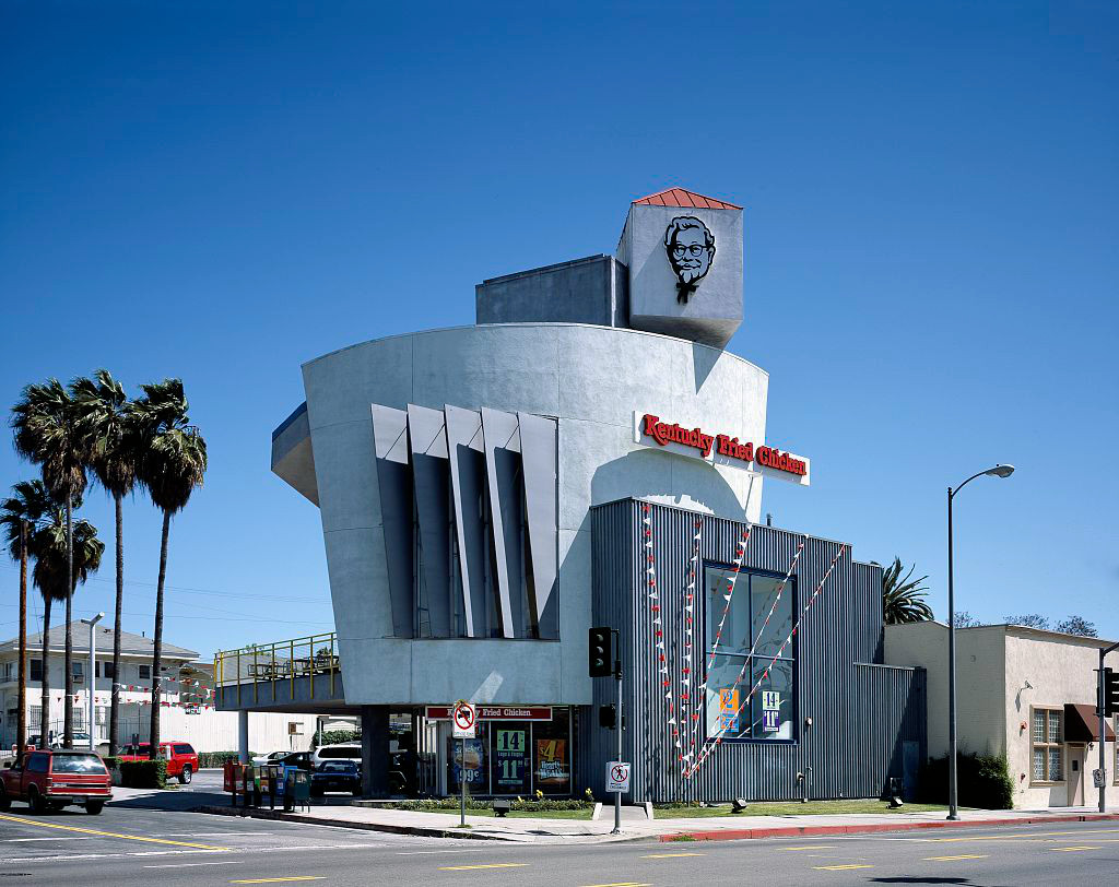 Kentucky Fried Chicken (now KFC) opened an outlet in the "programmatic" architectural style in 1990 in Los Angeles. Located on Western Avenue.